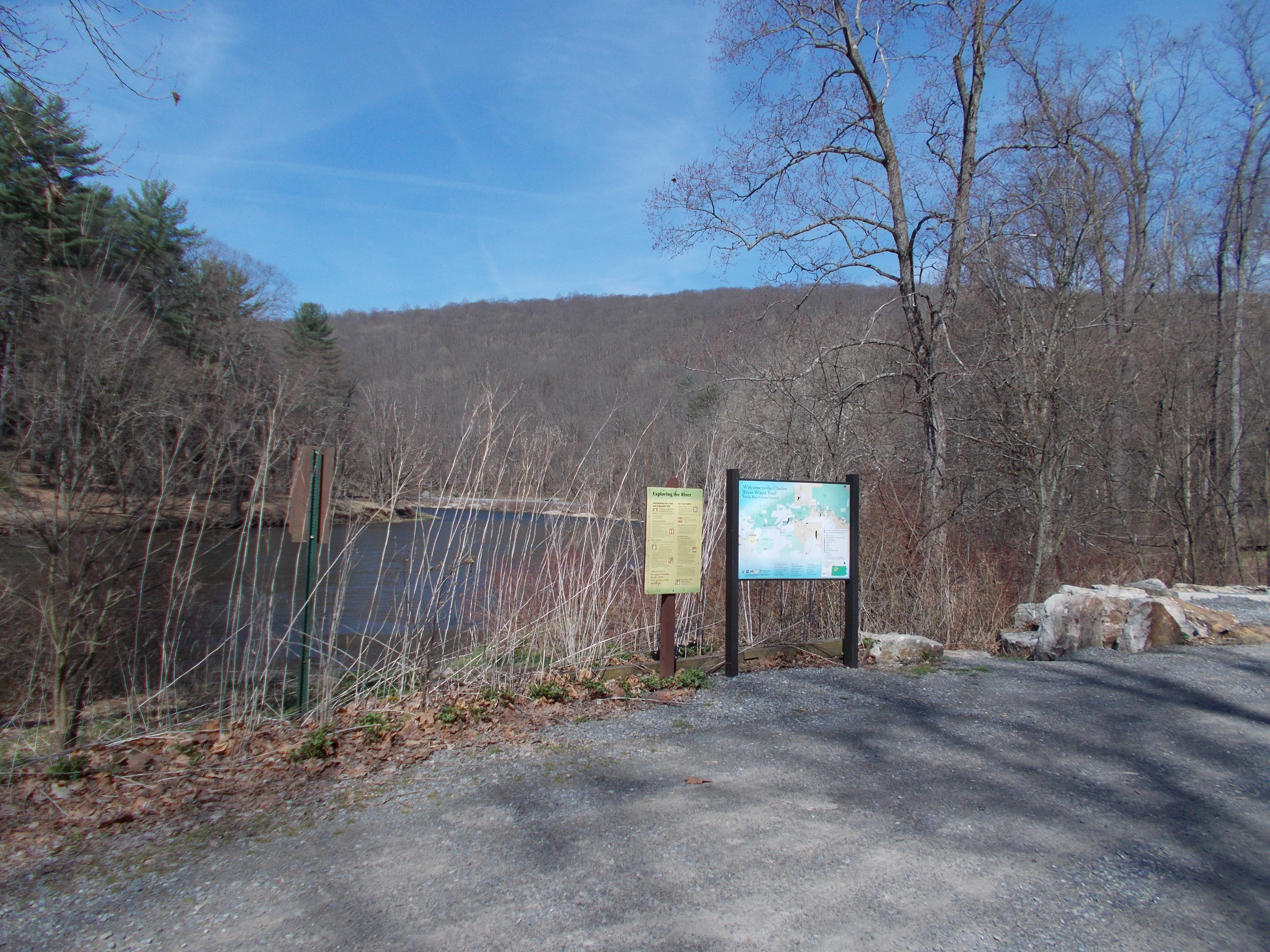 Irwintown Site, Spring Creek Township, PA, April 2013